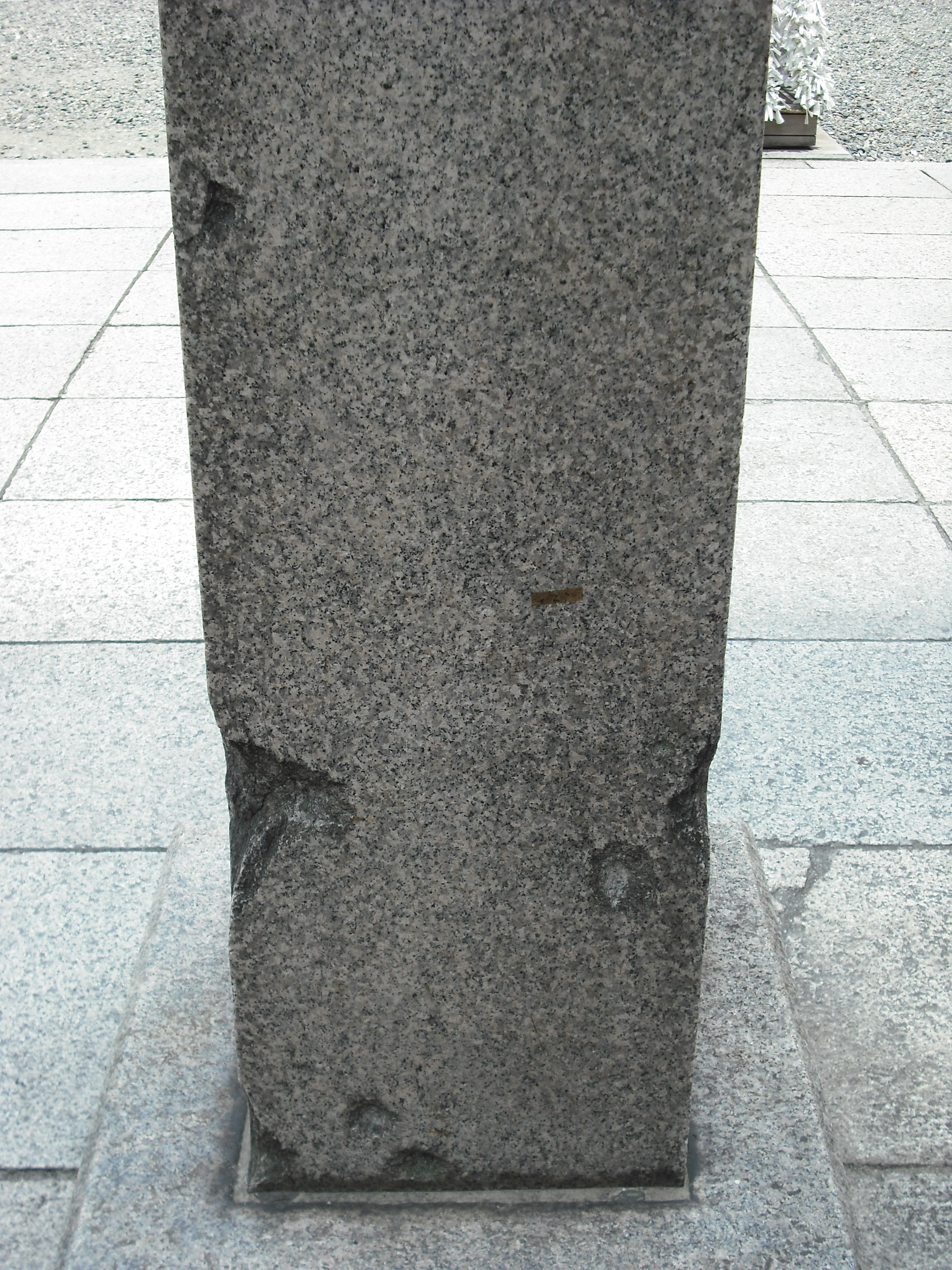 Tsuyuten Jinjya（Kita-ku,Osaka,Osaka Prefecture,Japan）